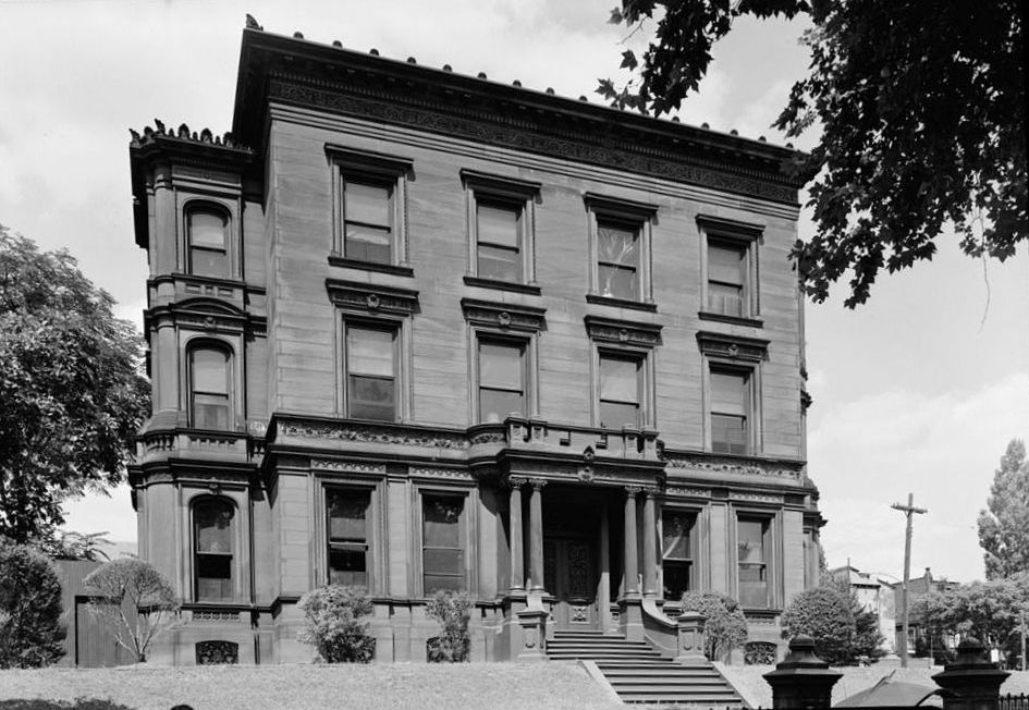 Kemble-Bergdoll House, 2201-05 Green Street, Philadelphia, Pennsylvania (1889-90), James H. Windrim, architect. Building/structure dates: 1890 initial construction